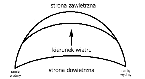 Dune's scheme